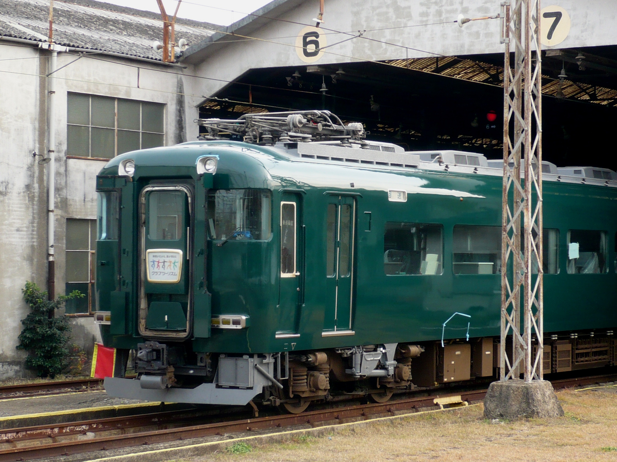 Kintetsu 15400 series EMU undergoing repainting following conversion from former 12200 series sets